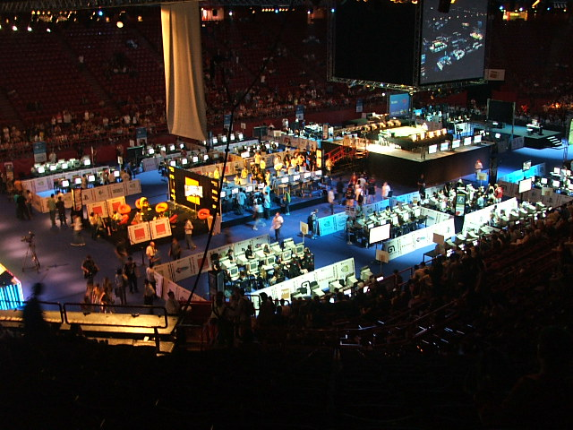 ESWC Final 2006, Palais Omnisports of Paris Bercy